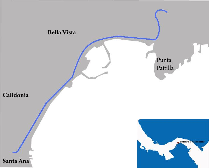 map of Svenida Balboa, Panama City, Panama.